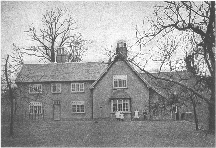 George Eliot's birthplace - South Farm - Arbury Project - Gutenberg eText 19222